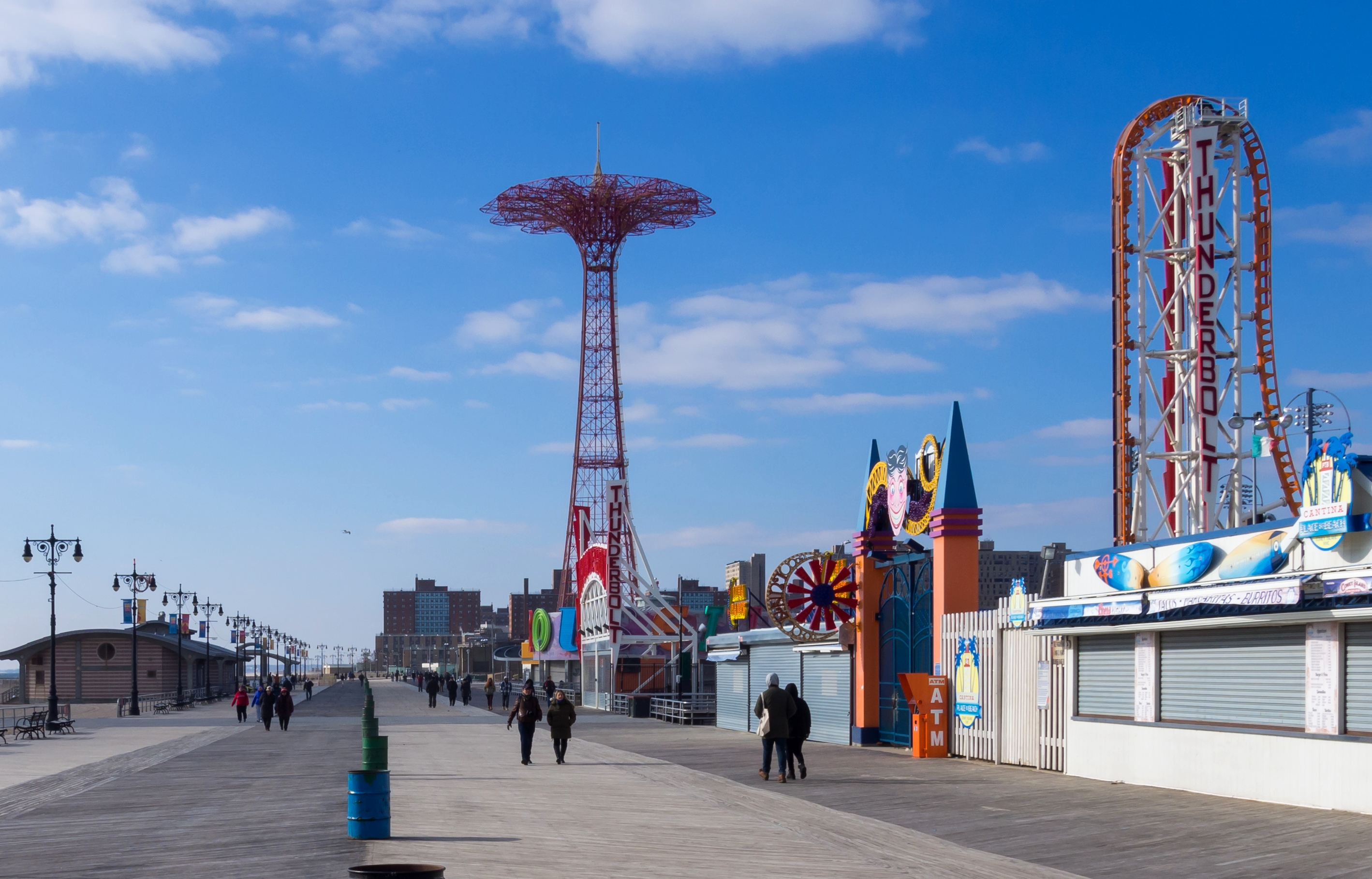 Coney Island's Riegelmann Boardwalk, looking west towards the Parachute Jump.